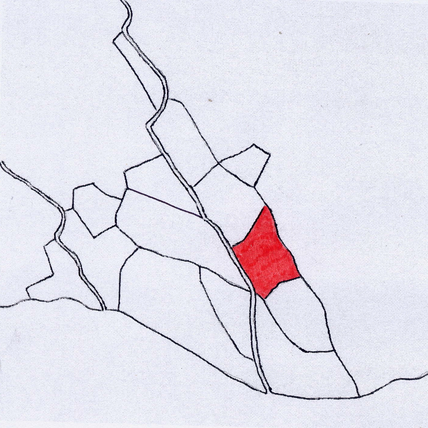 Bolnichny Gorodok in Tsentralny City district of Sochi